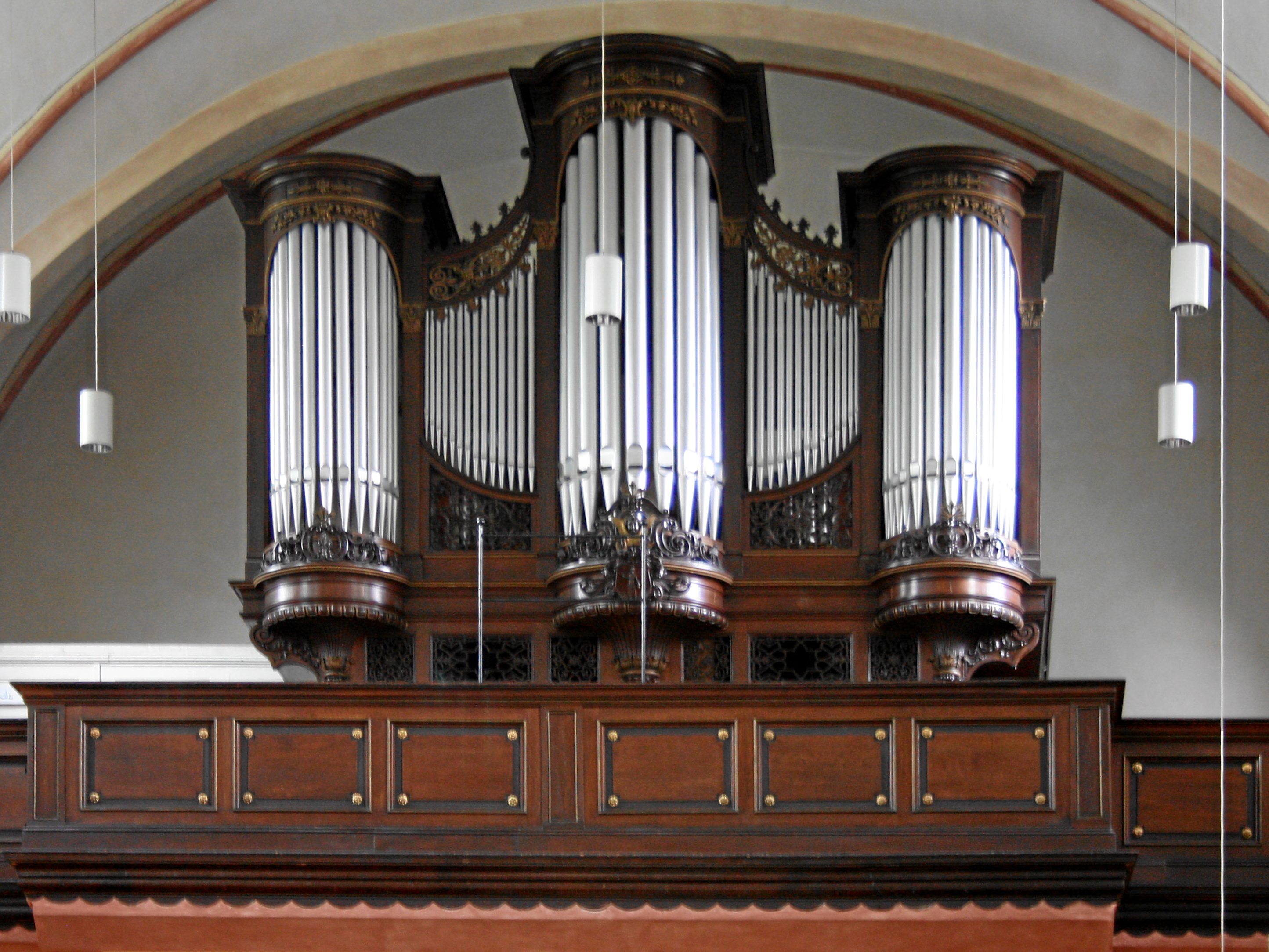 Köln-Sürth, Germany. Roman-catholic church Saint Remigius, pipe organ.